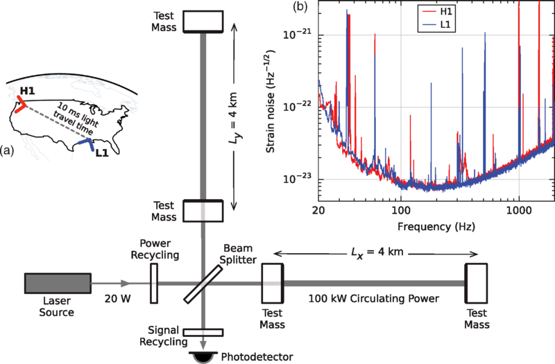 Simplified diagram of an Advanced LIGO detector (not to scale). A gravitational wave propagating orthogonally to the detector plane and linearly polarized parallel to the 4-km optical cavities will have the effect of lengthening one 4-km arm and shortening the other during one half-cycle of the wave; these length changes are reversed during the other half-cycle. The output photodetector records these differential cavity length variations. While a detector’s directional response is maximal for this case, it is still significant for most other angles of incidence or polarizations (gravitational waves propagate freely through the Earth). Inset (a): Location and orientation of the LIGO detectors at Hanford, WA (H1) and Livingston, LA (L1). Inset (b): The instrument noise for each detector near the time of the signal detection; this is an amplitude spectral density, expressed in terms of equivalent gravitational-wave strain amplitude. The sensitivity is limited by photon shot noise at frequencies above 150 Hz, and by a superposition of other noise sources at lower frequencies [47]. Narrow-band features include calibration lines (33–38, 330, and 1080 Hz), vibrational modes of suspension fibers (500 Hz and harmonics), and 60 Hz electric power grid harmonics.